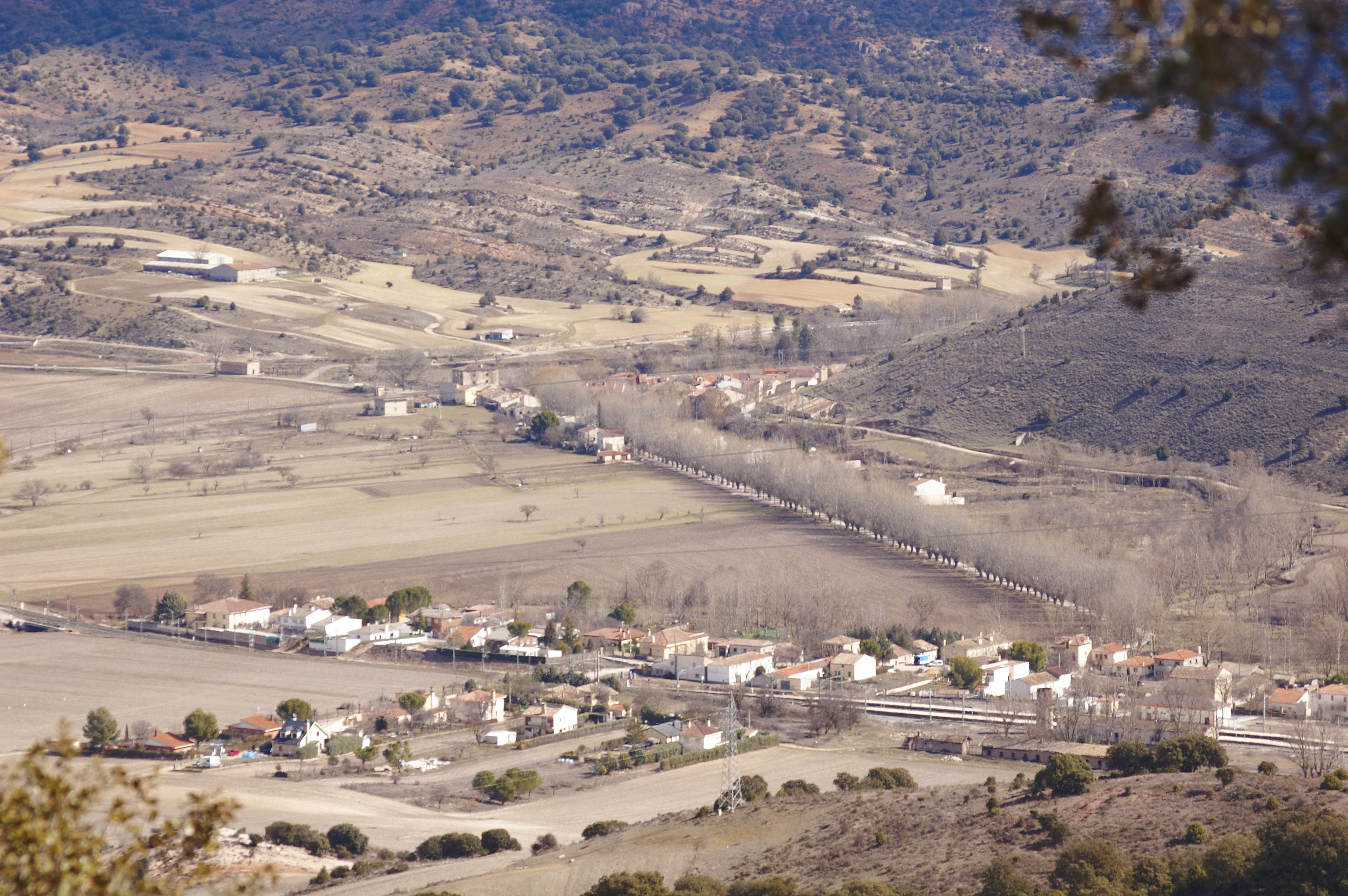 View of Baides, Guadalajara, Spain.